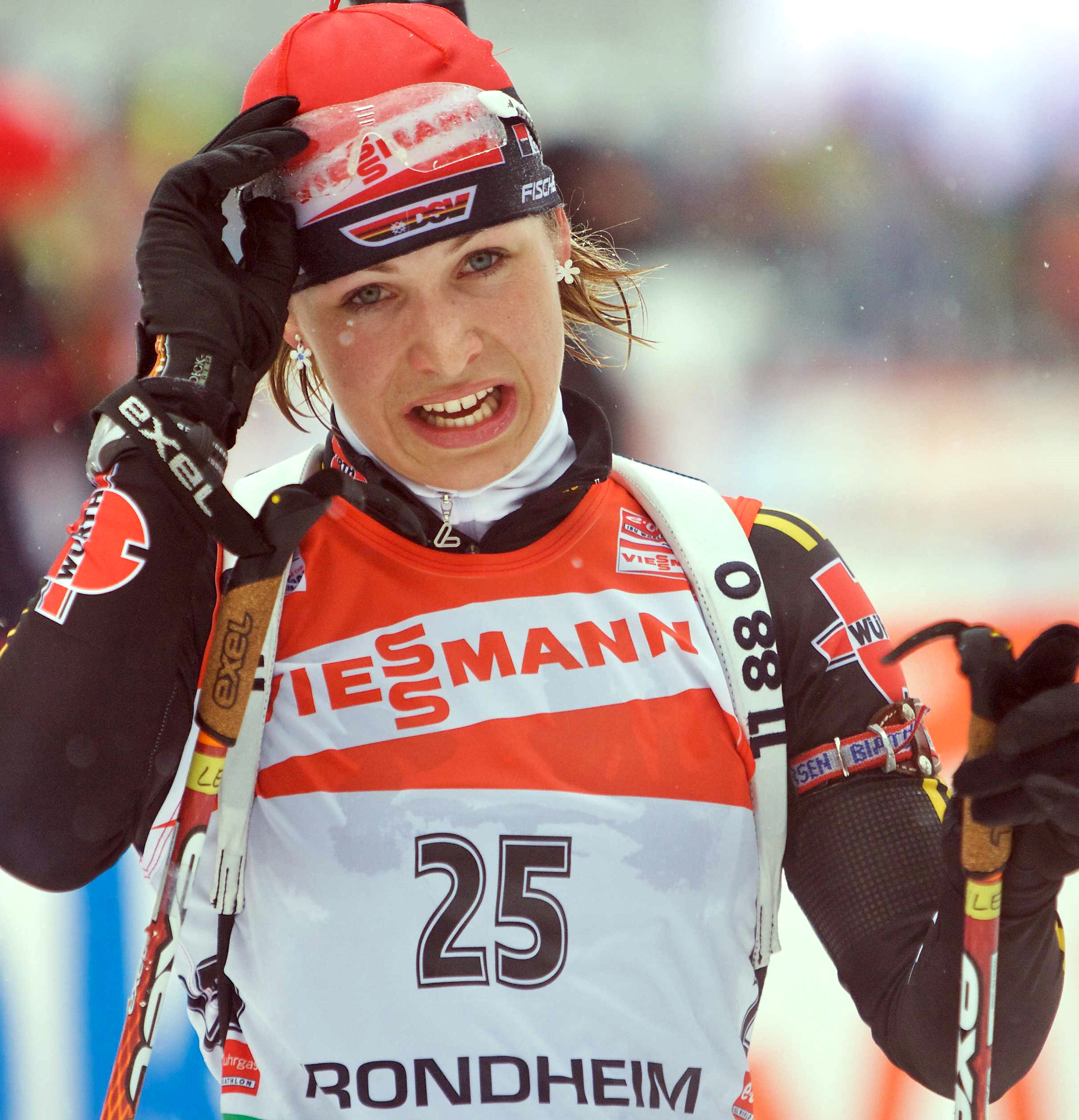 German biathlete Magdalena Neuner at the World Cup in Trondheim, Norway, March 2009 Cropped from Image:Neuner- Trondheim09 -1.jpg